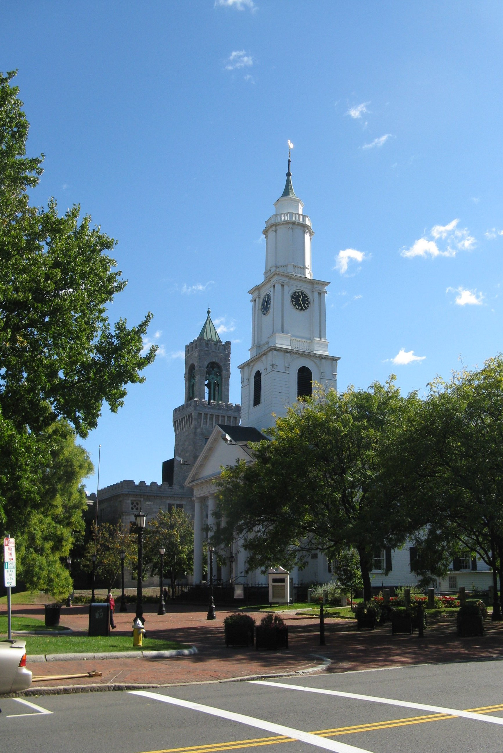 Category:Neoclassical style First Church of Christ, Springfield Massachusetts